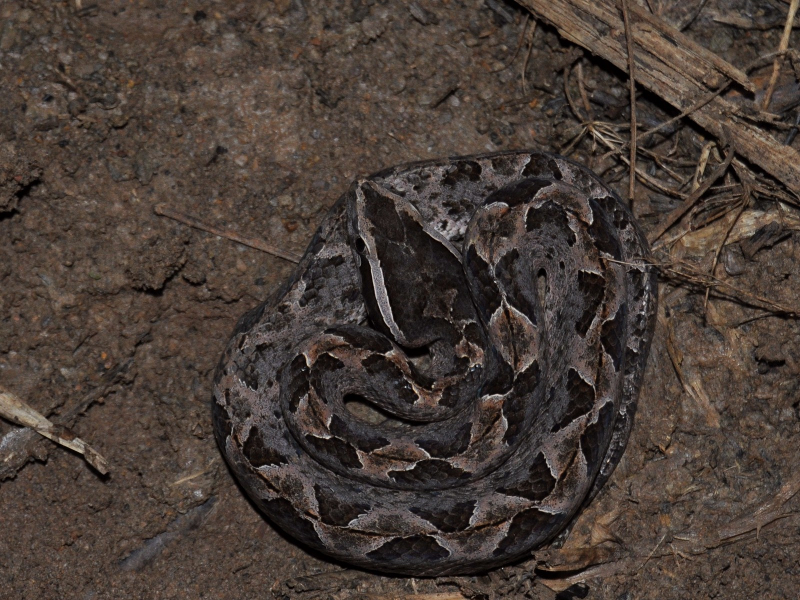 Young Malayan Pit Viper (Calloselasma rhodostoma); from Karawang, West Java. Awaiting its prey.